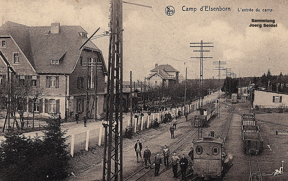 Narrow gauge railway in Camp d'Elsenborn